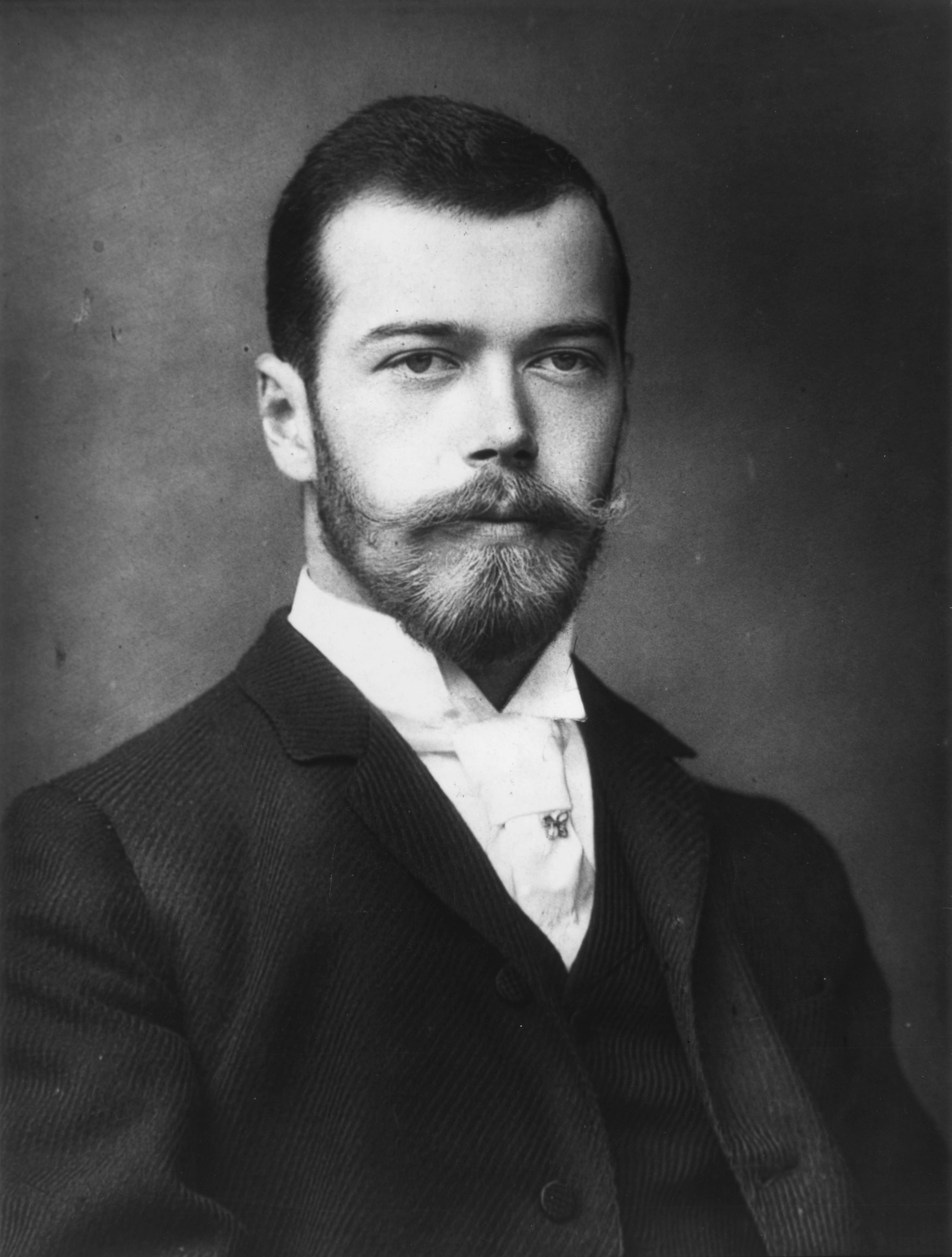 Nicholas II, the last Emperor of Russia, visits England for the wedding of King George V and Queen Mary.